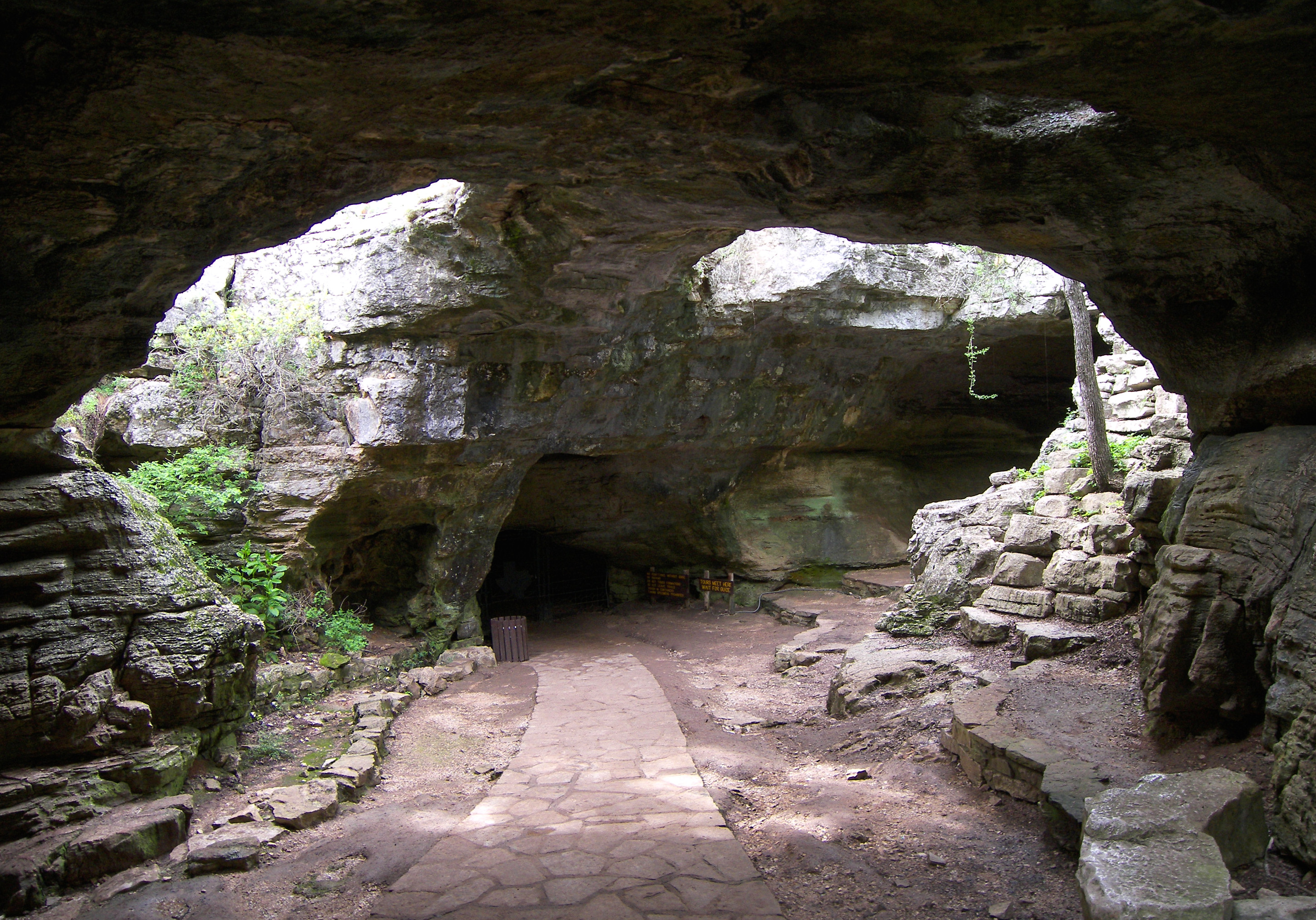 The entrance to Longhorn Cavern at Longhorn Cavern State Park in Burnet County, Texas.